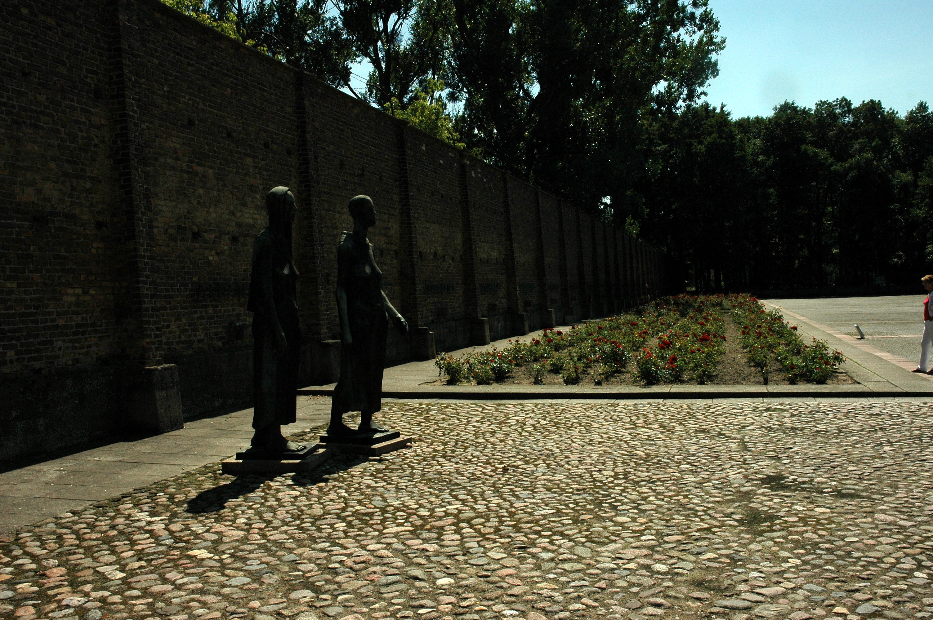 Mass grave in Ravensbrûck